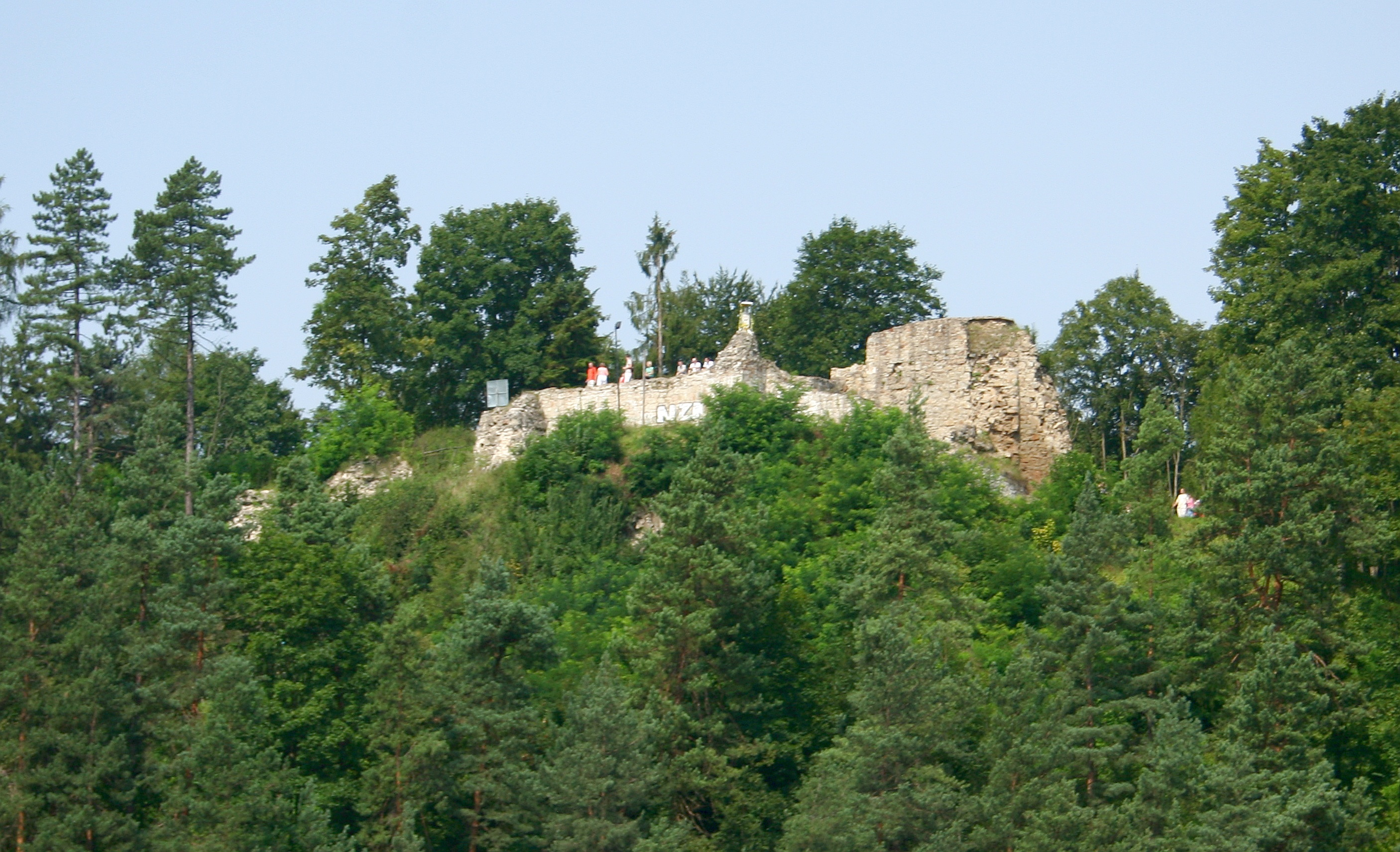 The Ruins of the castle in Muszyna, Poland